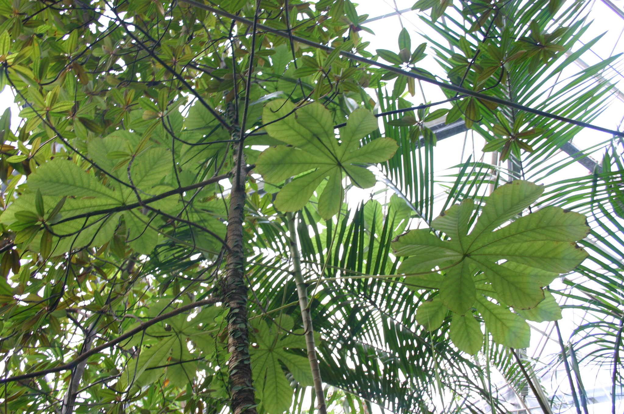 Araceae Taken at the Hortus Botanicus Amsterdam. Visit for daily doses of ionian enchantment.